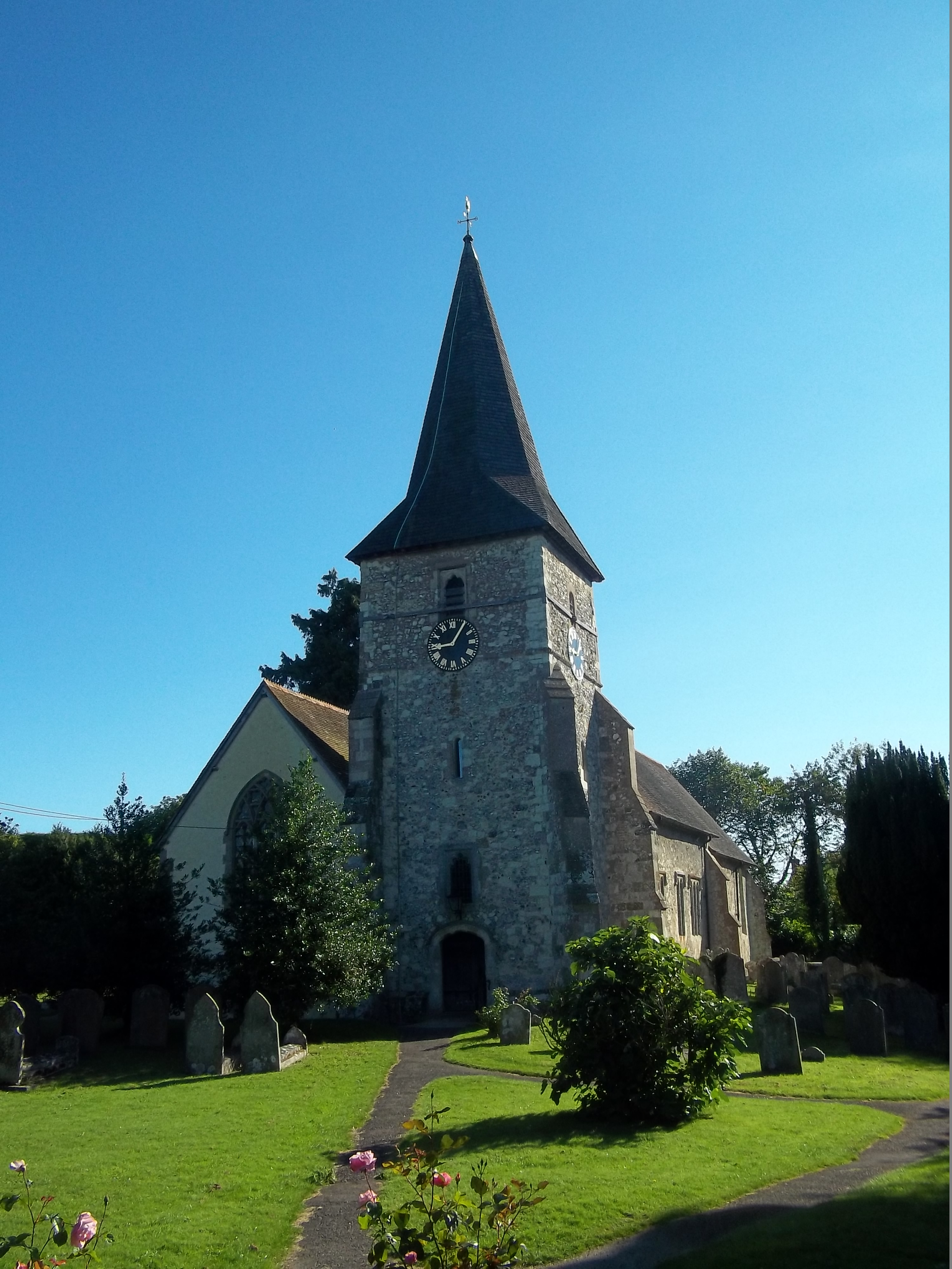 Church of the Holy Rood in Holybourne, Hampshire, UK.